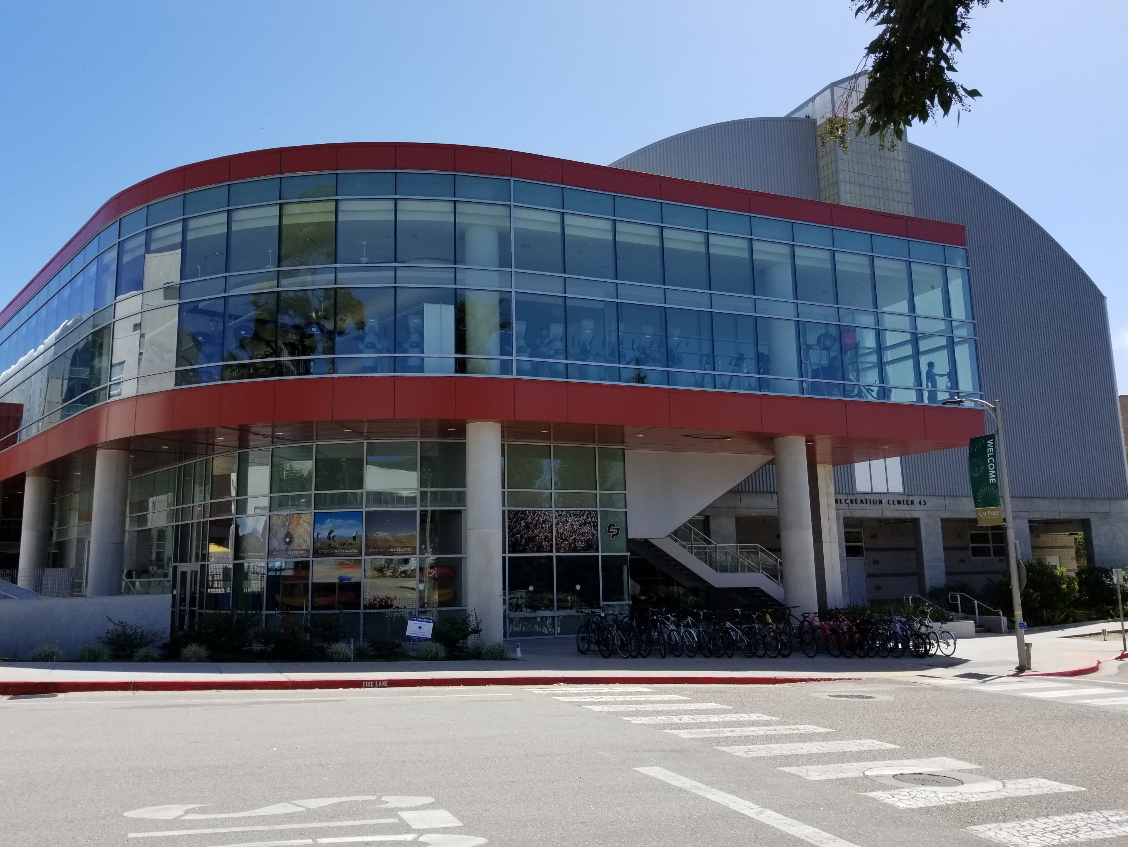 Cal Poly Recreation Center (San Luis Obispo)